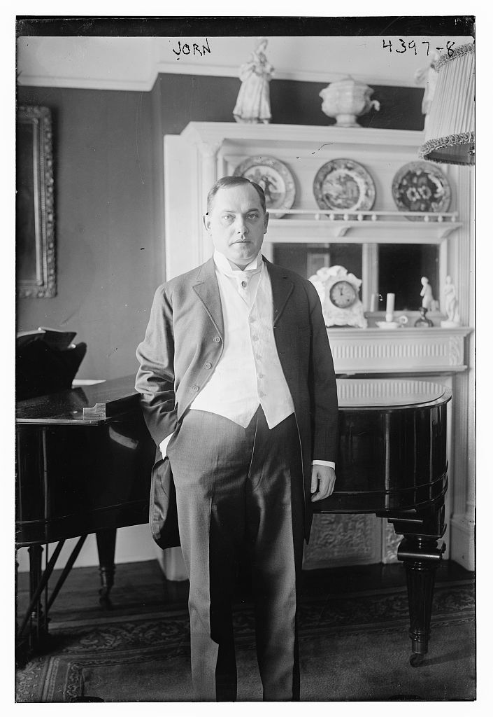 Carl Jörn in 1917